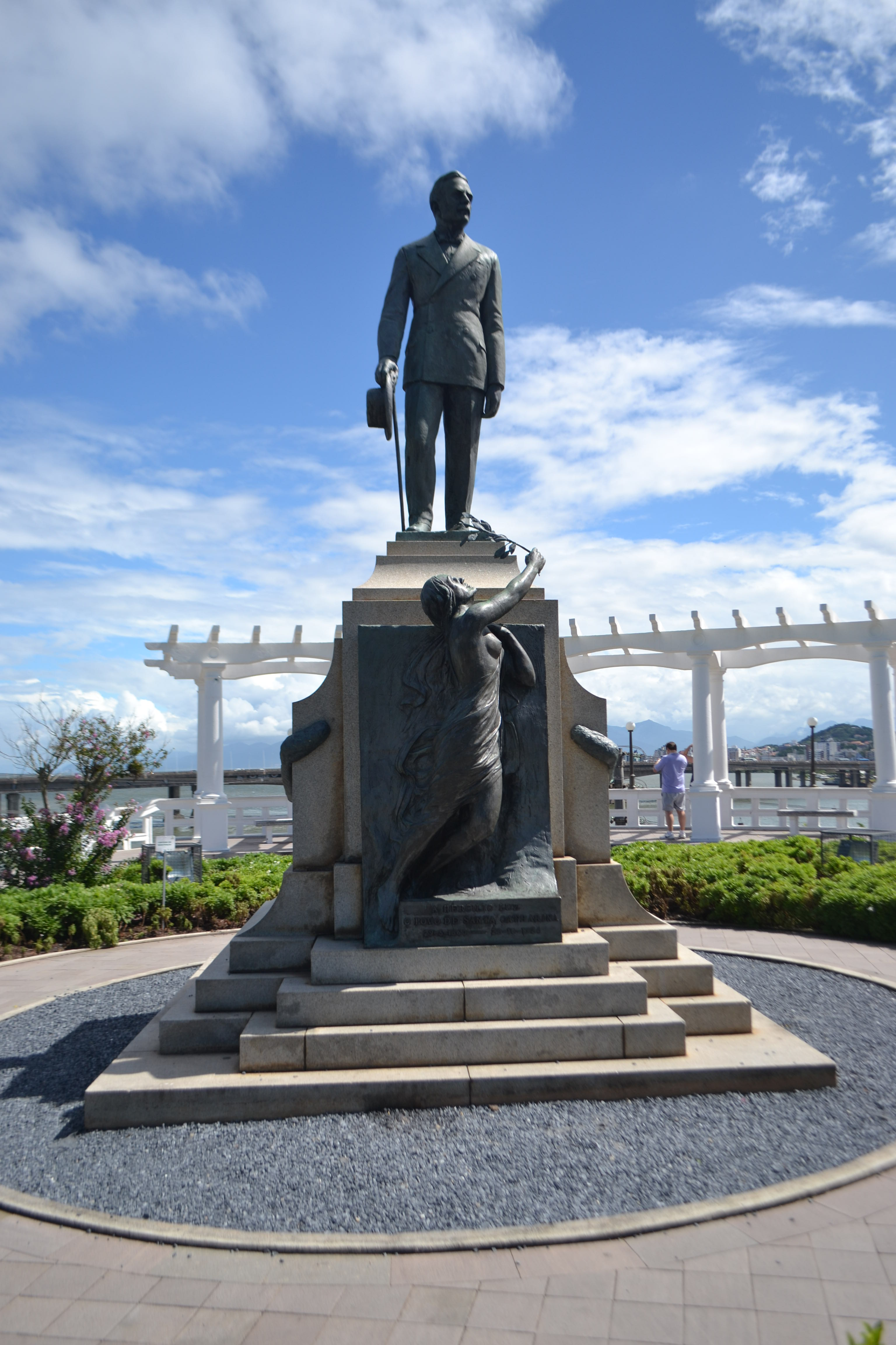 I, Janko Hoener, created this photograph. If you intend to use it, please credit me with the following attribution line: Janko Hoener / CC-BY-SA-4.0. A link back to this page and informing me about your usage is appreciated.